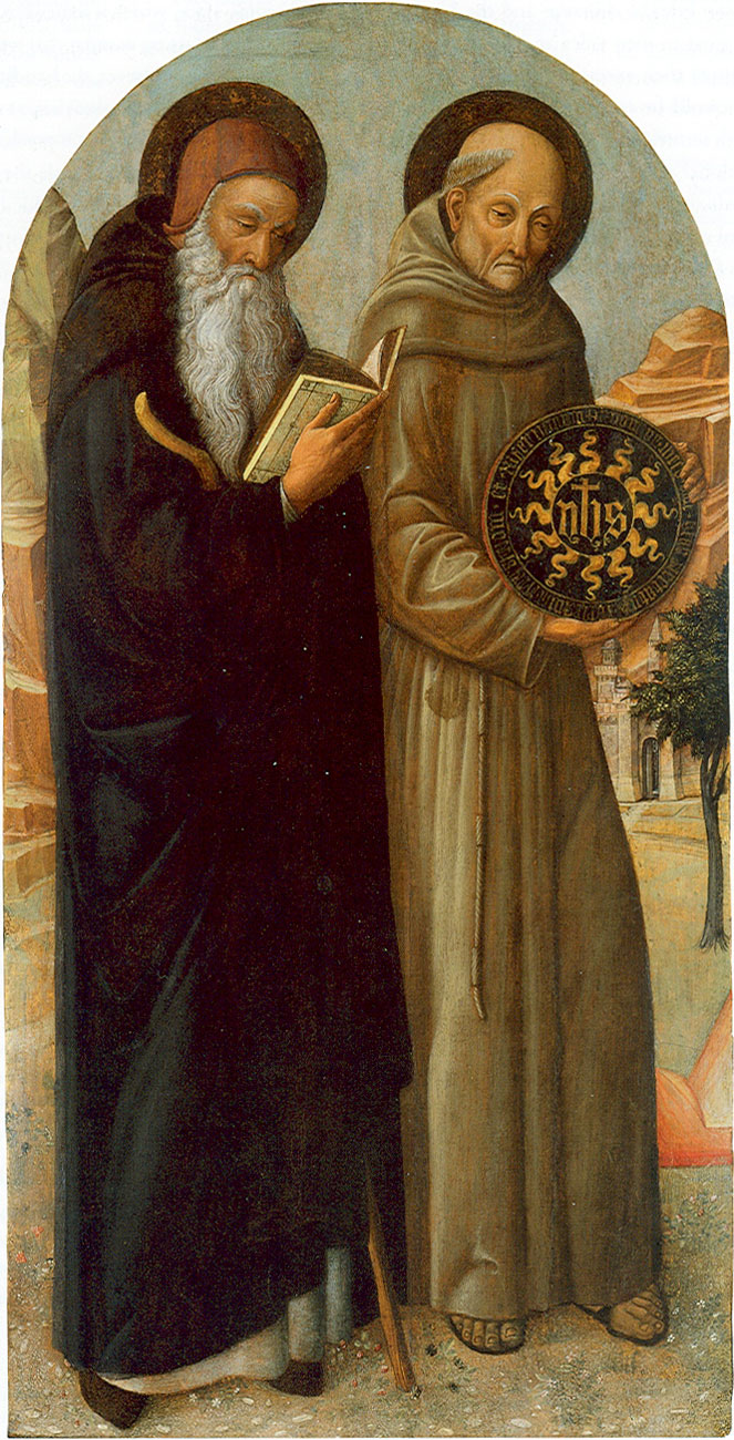 Saint Anthony Abbot and Saint Bernardino da Siena Jacopo Bellini Tempera on panel, 110 x 57 cm Washington, National Gallery of Art